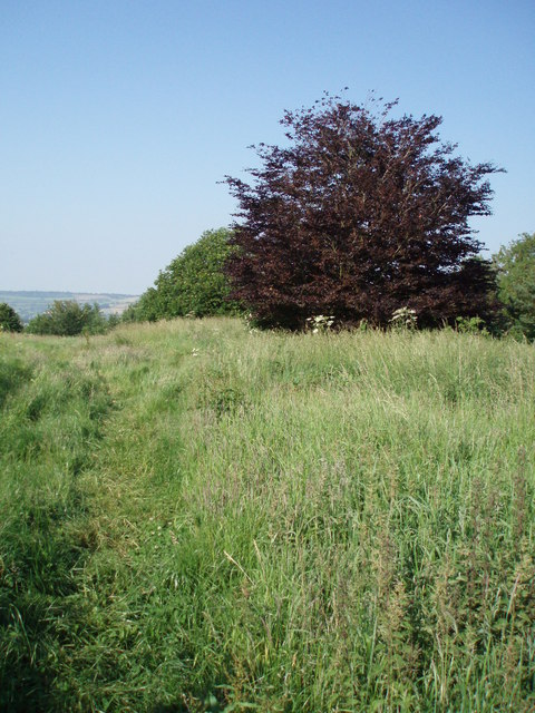 The top of Stantonbury Hill. The Wansdyke passes over Stantonbury Hill, and it is also the site of an Iron age hill fort.